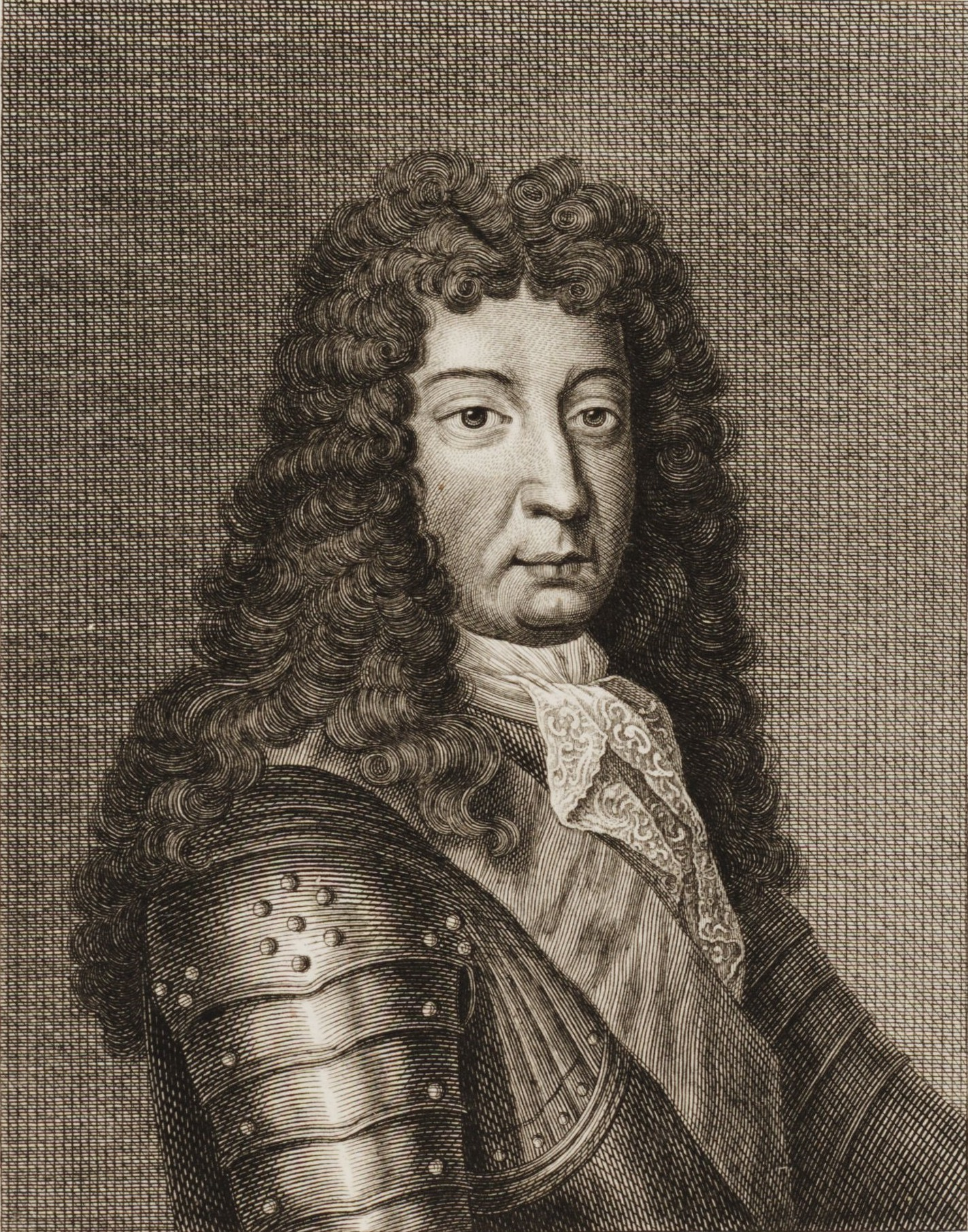 Engraved portrait of Philibert de Gramont